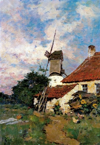 Franz Binjé, Le moulin. Oil on canvas